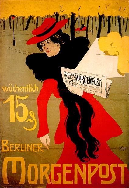 Advertising for the newspaper Berliner Morgenpost.